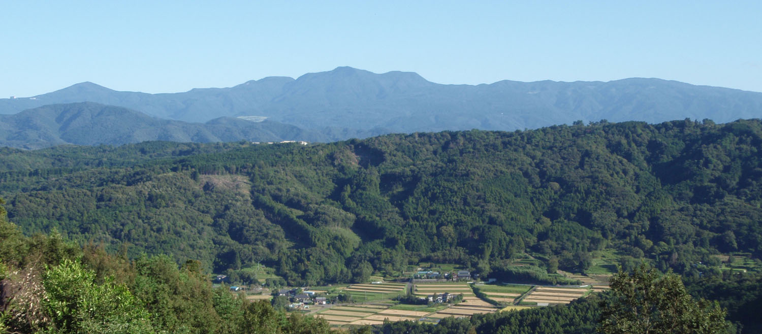 Mount Amagi as seen from the northwest in Izu Peninsula, Shizuoka Prefecture, Japan.